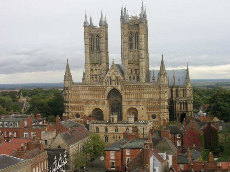 Lincoln Cathedral The cathedral is the 3rd largest in Britain (in floor space) after St Paul's and York Minster.